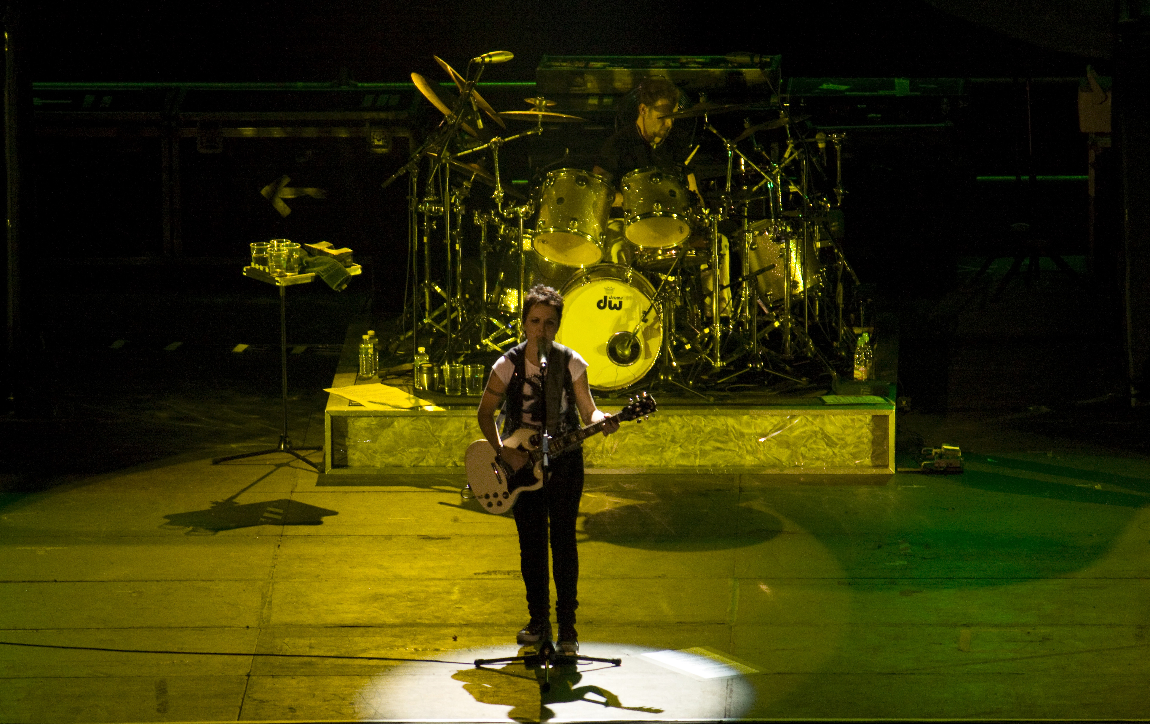 The Cranberries live in Barcelona 2010-03-13